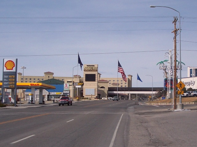 View of the border between Utah and Nevada (Wendover, Utah/West Wendover, Nevada) as seen from the intersection of Wendover Boulevard at 100 East (Aria Boulevard) (taken March 24, 2006)